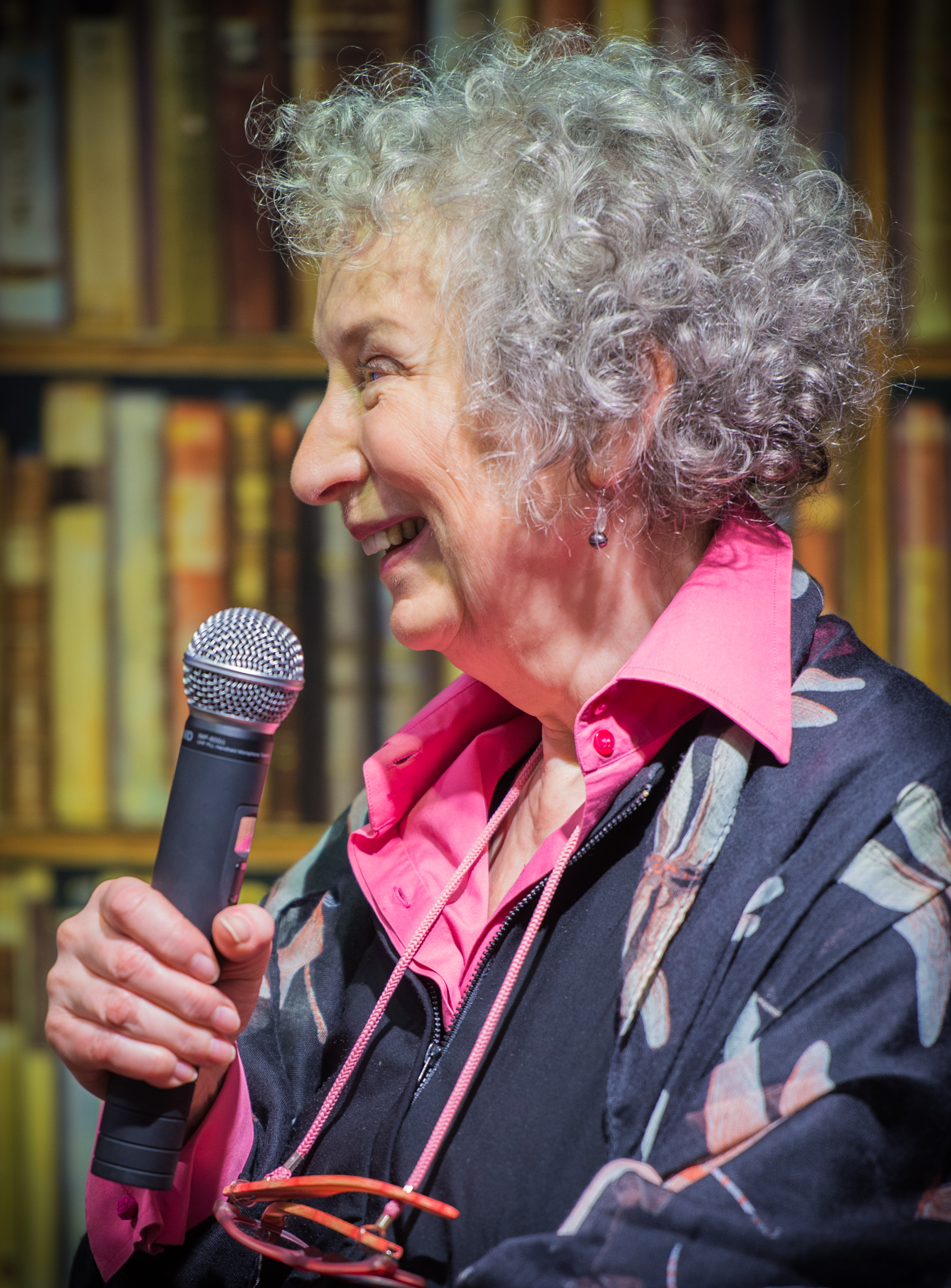 Margaret Atwood in Stockholm in June 2015.